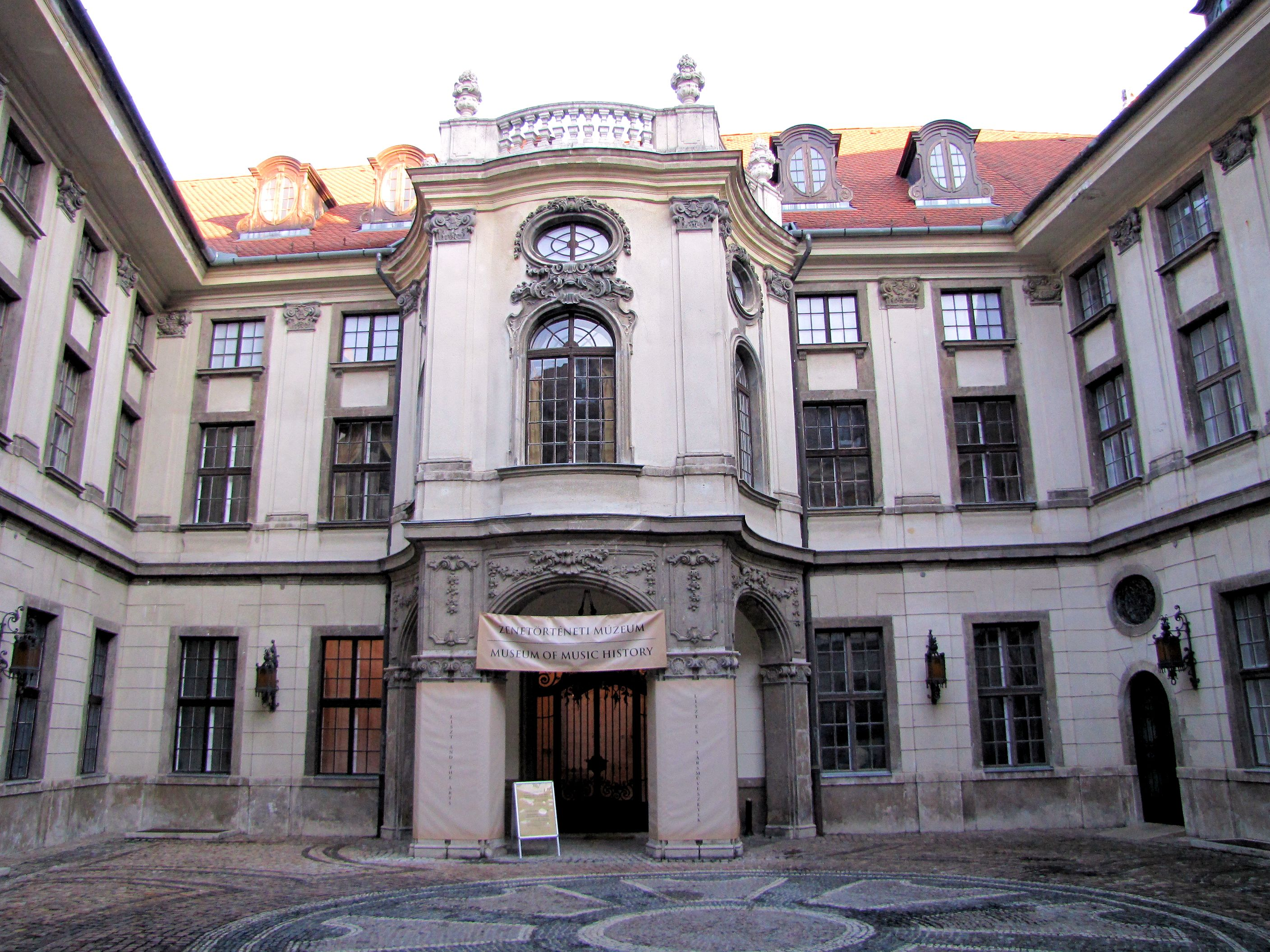 Erdődy palace, Buda Castle. Architect: Máté Nepauer, 1750-1769.